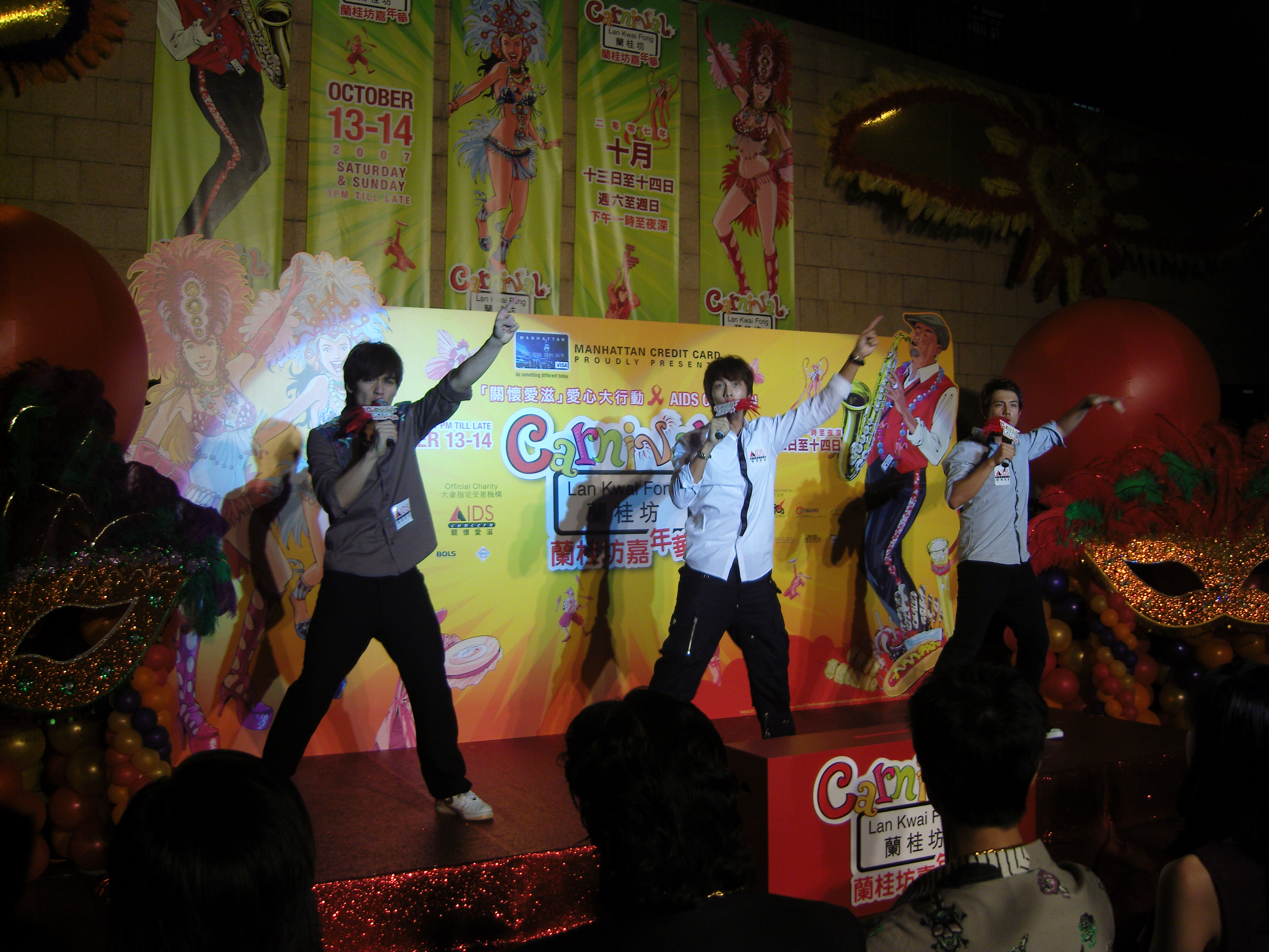 Lan Kwai Fong Carnival 2007 at Lan Kwai Fong, Central, Hong Kong.